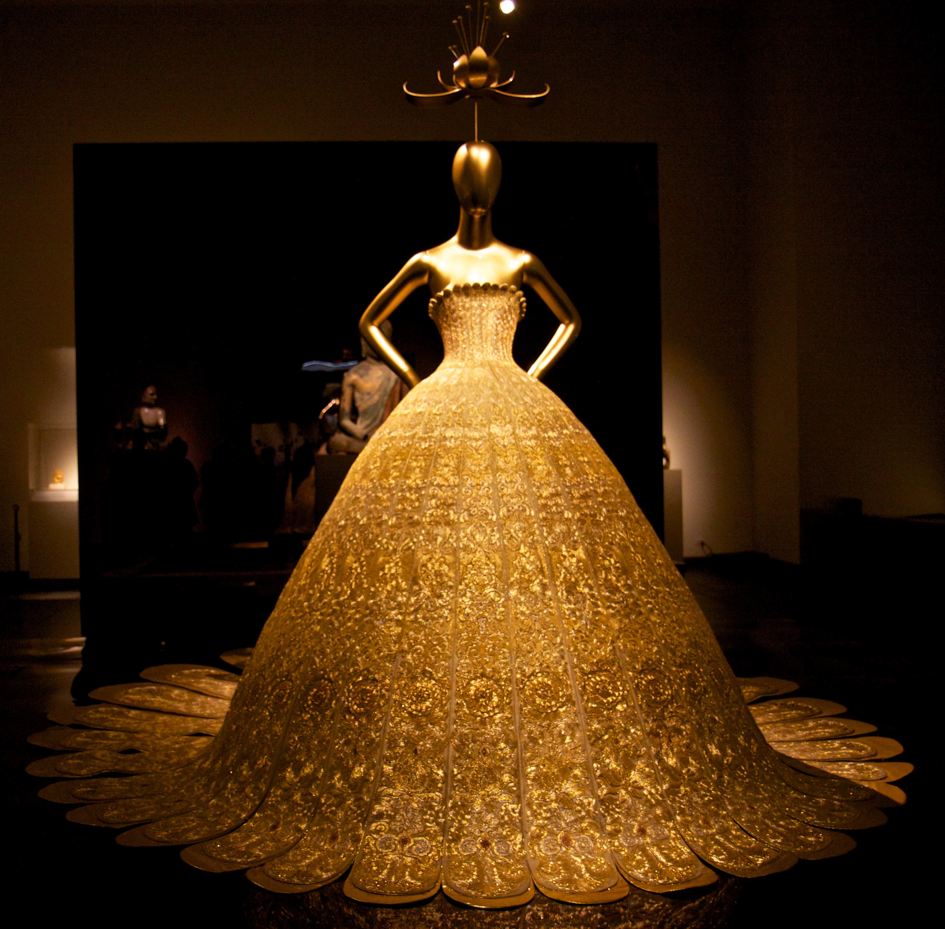 Design by Guo Pei shown in the "China: Through the Looking Glass" exhibition in the Metropolitan Museum of Art, New York City, United States